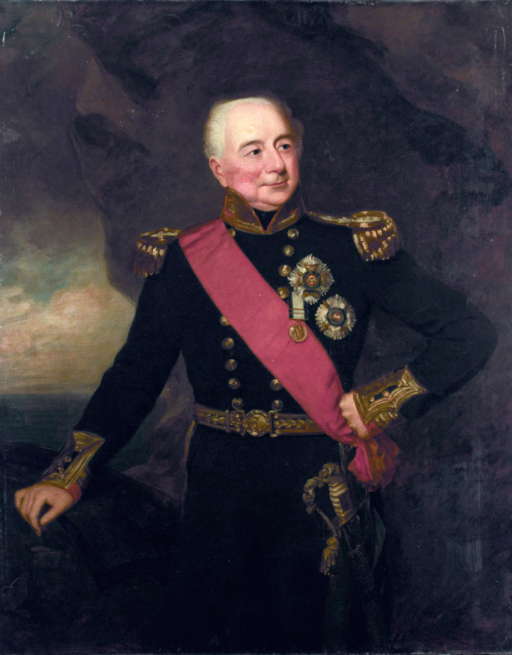 Admiral Sir William Hargood (1726–1839)